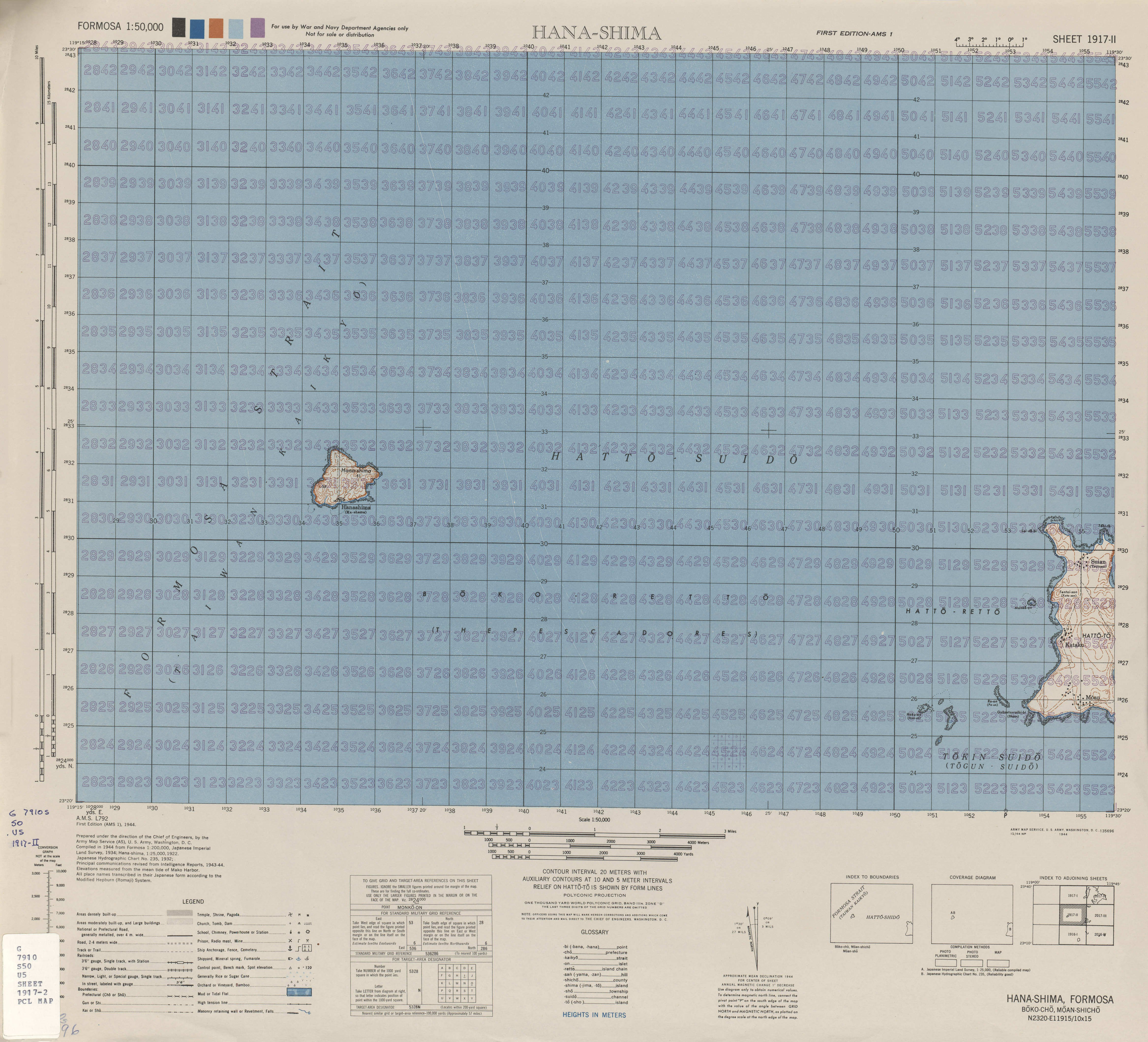 Map of Hua Islet (Hana-shima) area, Wangan, Penghu, Taiwan from Series L792